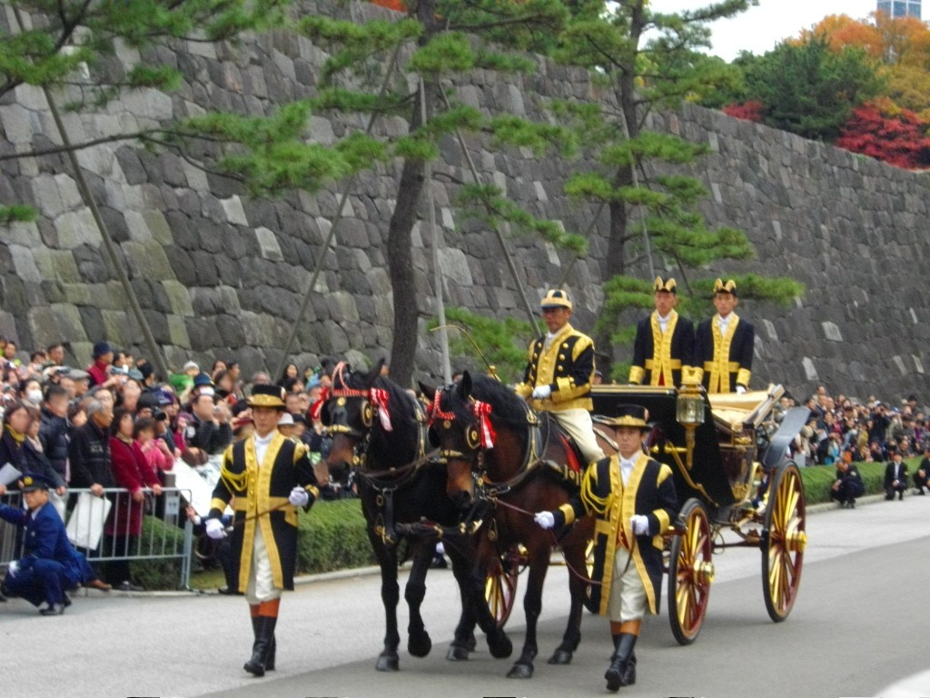 Special Parade of the Ceremonial Horse-Drawn Carriages